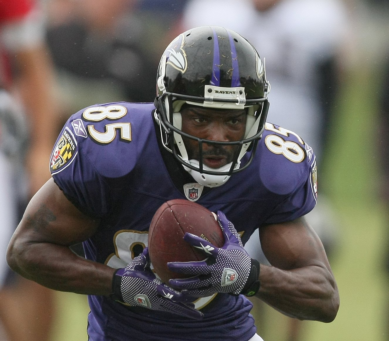 Baltimore Ravens Training Camp August 6, 2009